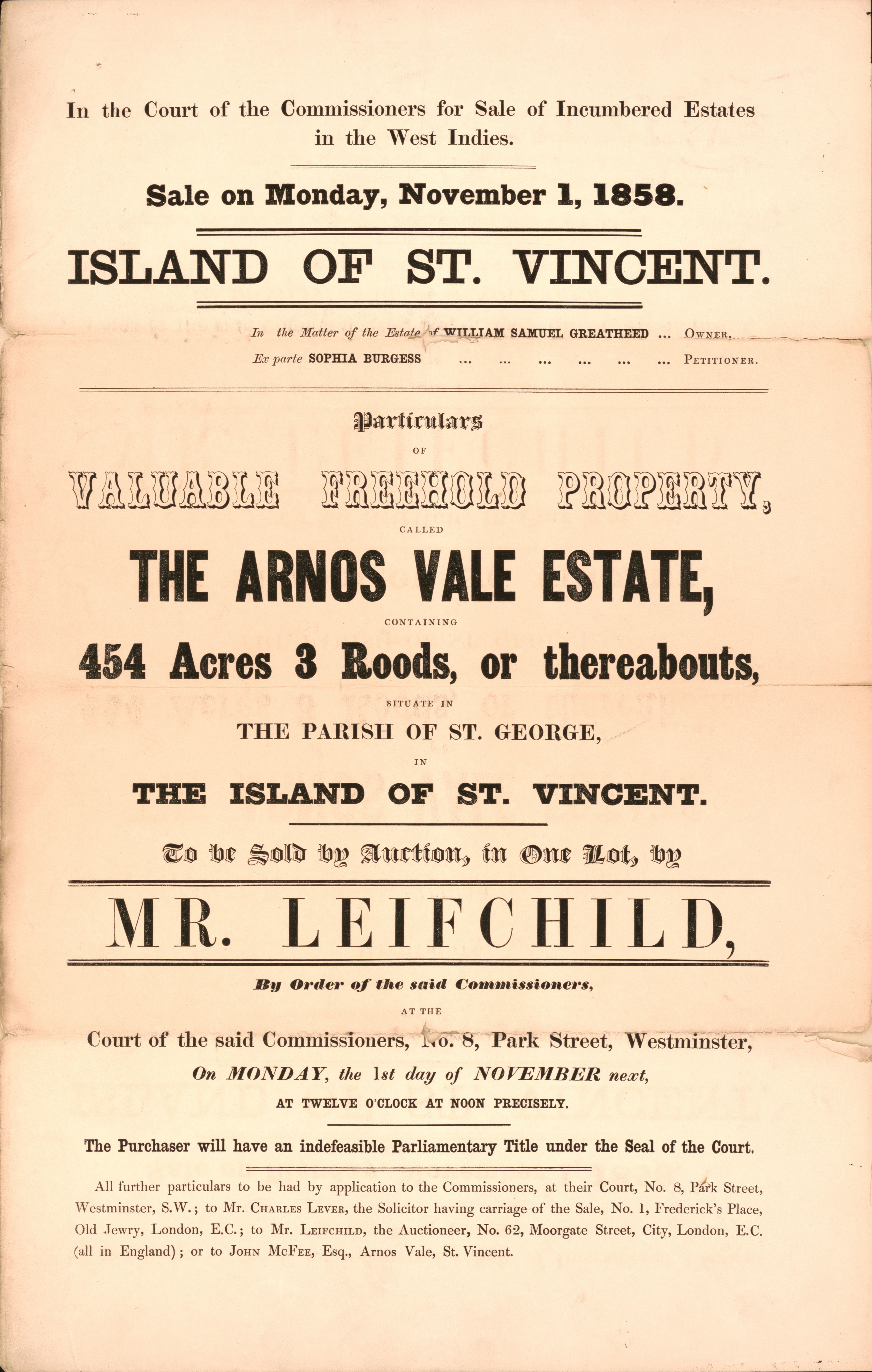 Title from accompanying text. "In the matter of the Estate of William Samuel Greatheed, owner, Ex parte Sophia Burgess, petitioner." "Sale on Monday, November 1, 1858." Accompanied by text: In the Court of the Commissioners for Sale of Incumbered Estates in the West Indies, Saint Vincent. ([4] unnumbered pages : cadastral data, annotations ; 44 cm, folded to 28 x 12 cm). "At the Court of the said Commissioners, No. 8, Park Street, westminister, on Monday, the 1st day of November next, at twelve o'clock at Noon precisely. The purchaser will have an indefeasible Parliamentary Title under the Seal of the Court." "All further particulars to be had by application to the Commissioners, at their Court, No. 8, Park Street, Westminister, S.W.; to Mr. Charles Lever, the Solicitor having carrige of the Sale, No. 1, Frederick's Place, Old Jewry, London, E,C,; to Mr. Leifchild, the Auctioneer, No. 62, Moorgate Street, City, London, E.C. (all in England); or to John McFee, Esq., Arnos Vale, St. Vincent. Copy imperfect: Discoloration, strongly use-worn, very fragile, torn in half with some small holes along fold lines. Available also through the Library of Congress Web site as a raster image.